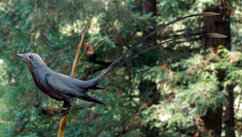 Eoconfuciusornis zhengi, Early Cretaceous of China. Digital.